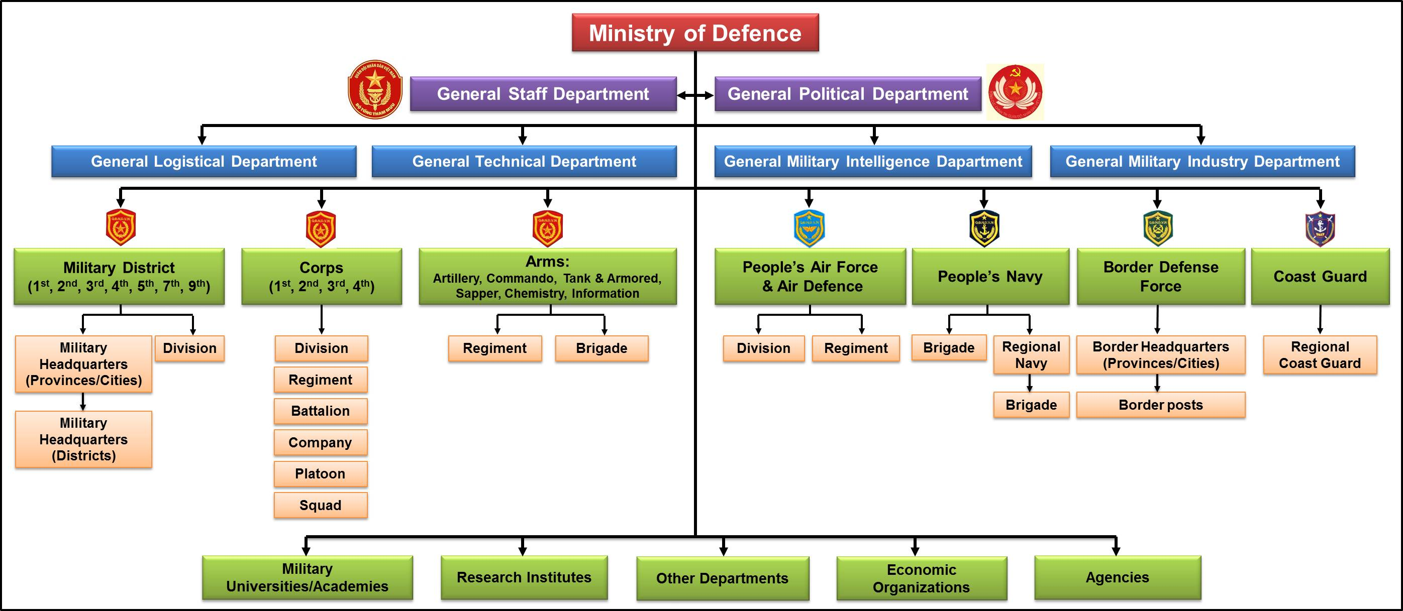 Vietnam People's Army structure